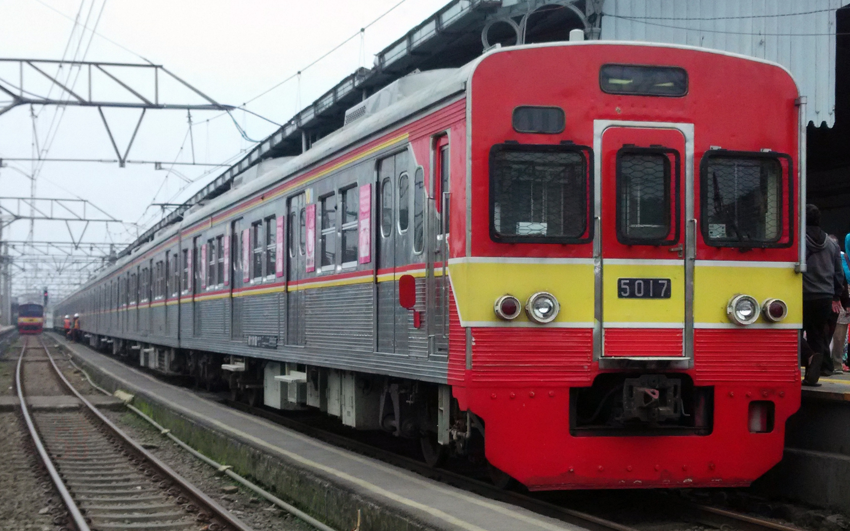 10-car former Tokyo Metro 5000 series set 5817 at Bogor Station in West Java, Indonesia, in July 2017. Previously an 8-car set since its arrival in Indonesia in 2006, it was reformed as a 10-car set in June 2017 by adding cars 1092 and 1093 from former Toyo Rapid 1000 series set 1090.